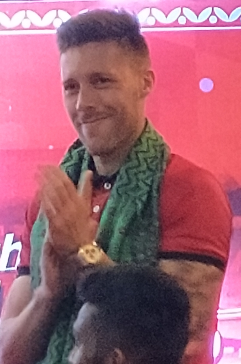 This file has been extracted from another file: Tiri2.jpg